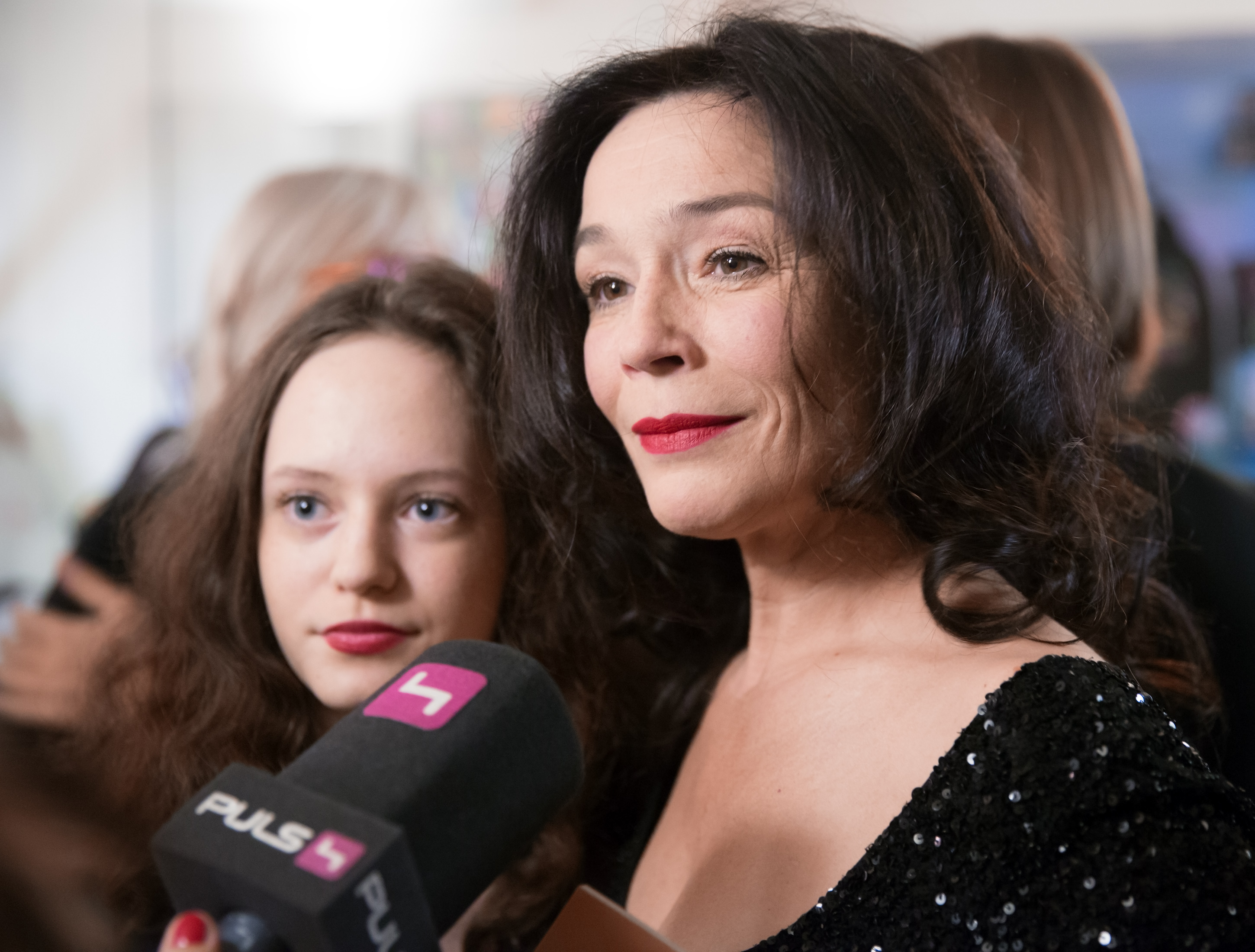 Julia Stemberger and daughter Fanny Altenburger at the Nestroy Theatre Awards 2015 (Ronacher, Vienna, Austria).